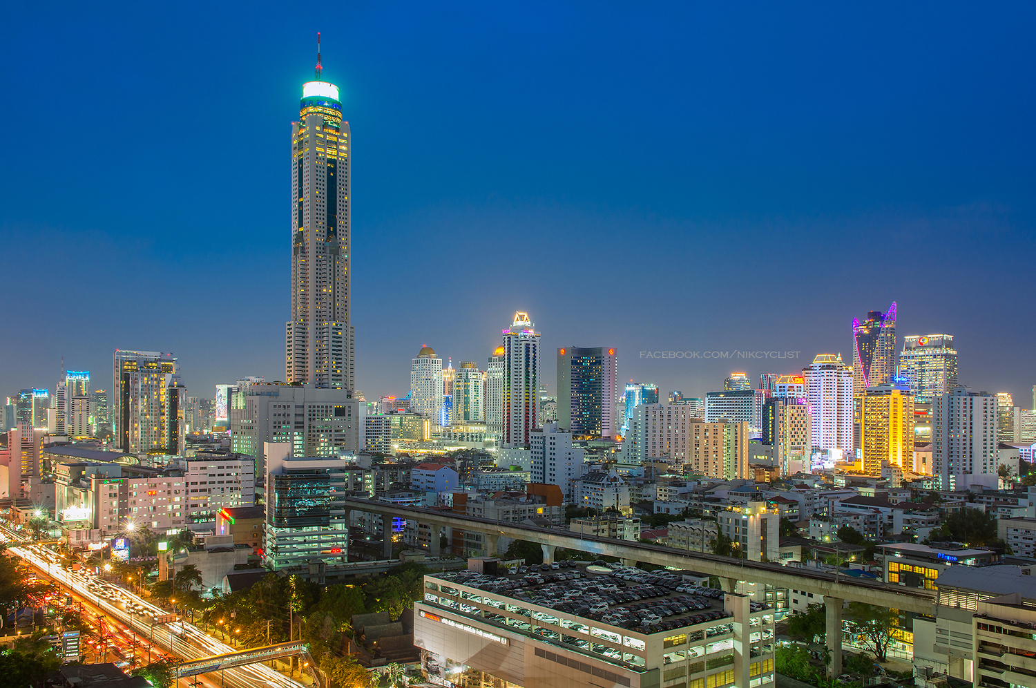 The Baiyoke Tower II in Bangkok